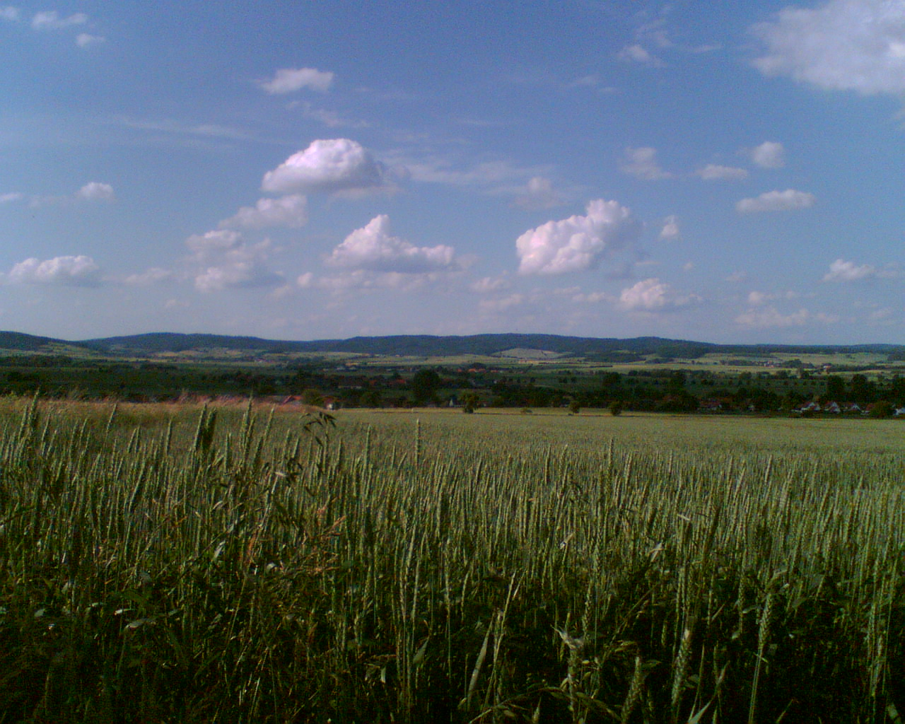 landscape in southern lower saxony (Germany), Dassel area